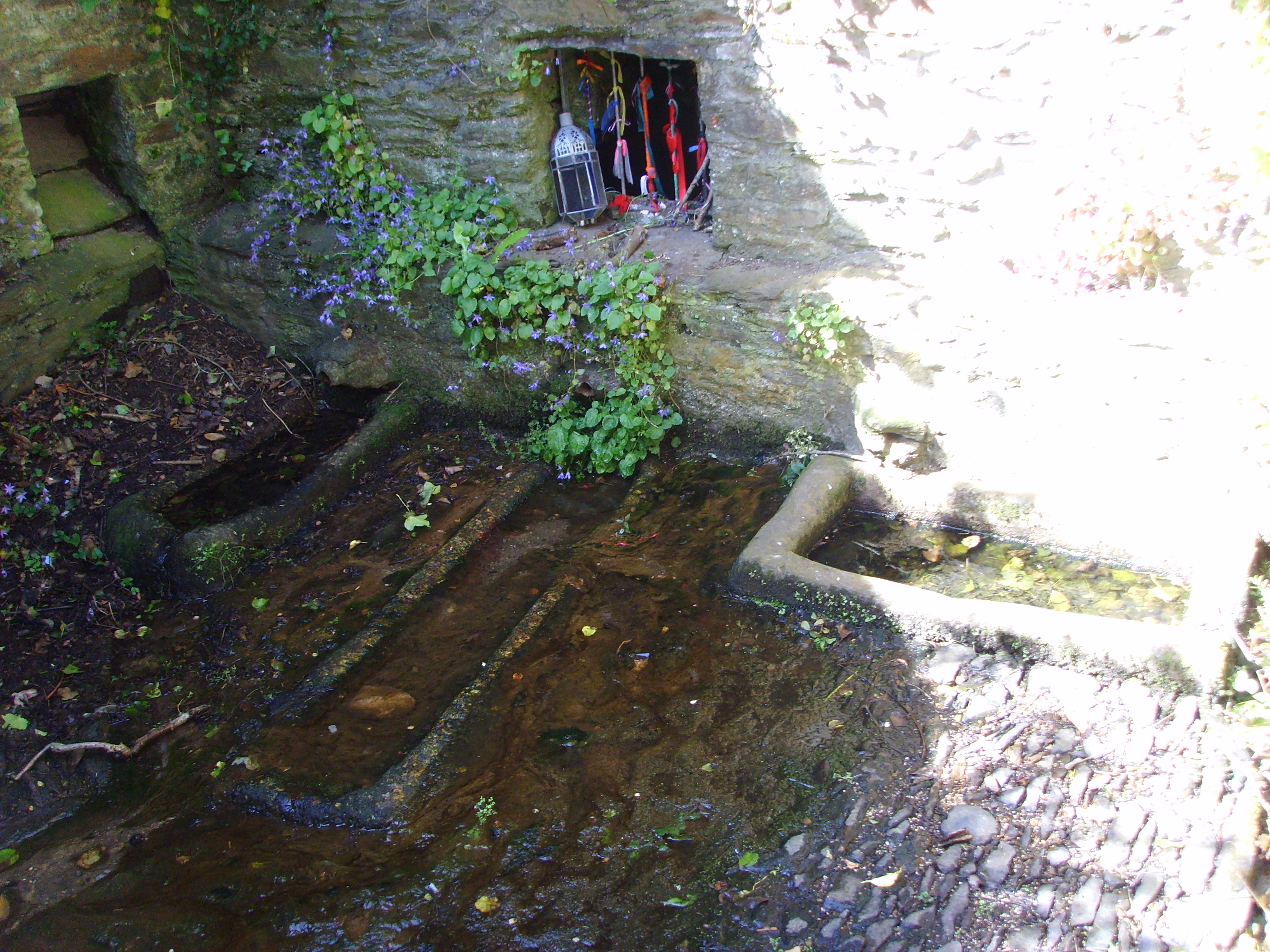 The Leechwell, Totnes, United Kingdom. A good example of a medieval healing spring.